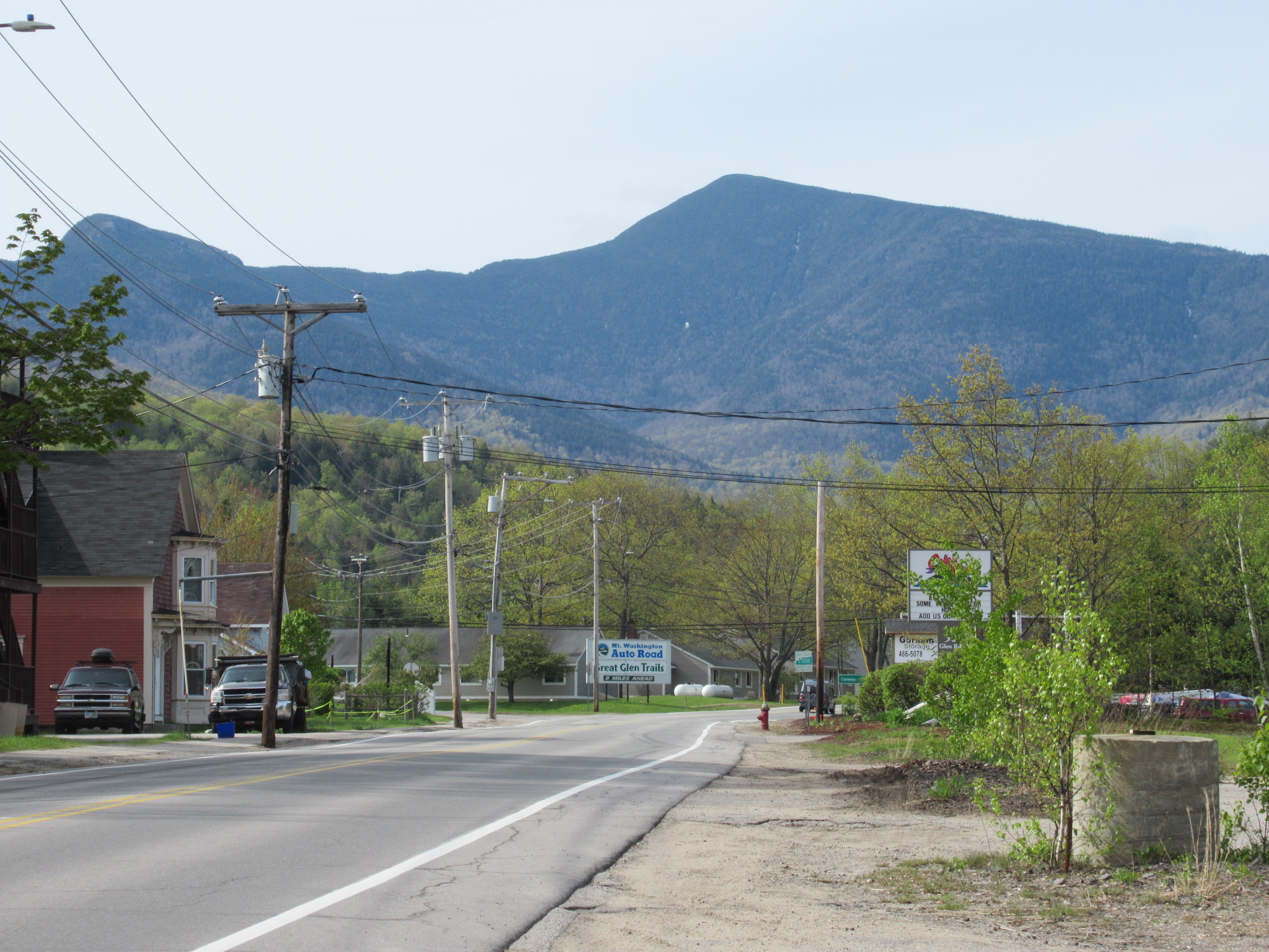 North Carter Mountain as seen from New Hampshire Route 16 in Gorham, New Hampshire